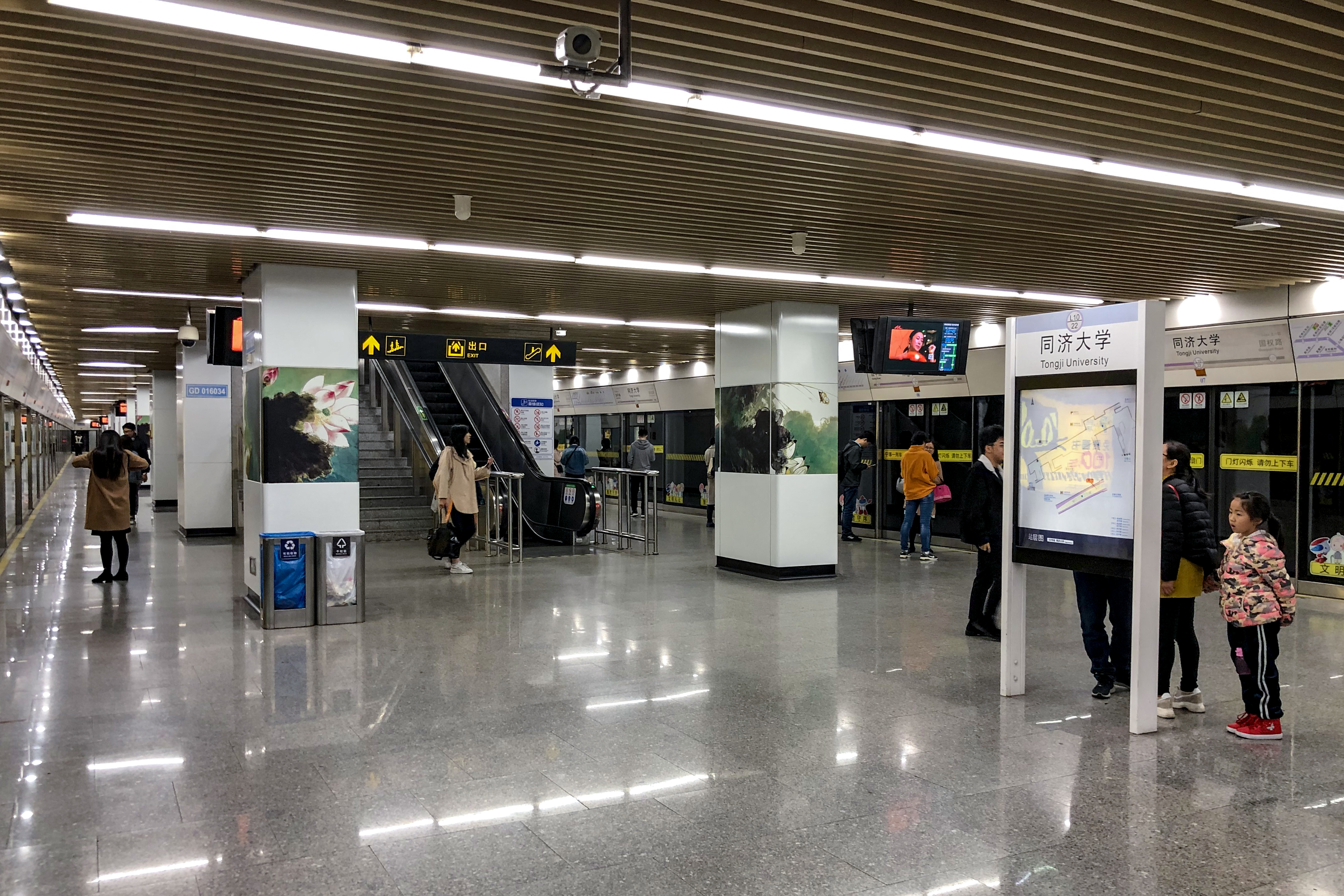 Nothing special on the platform?